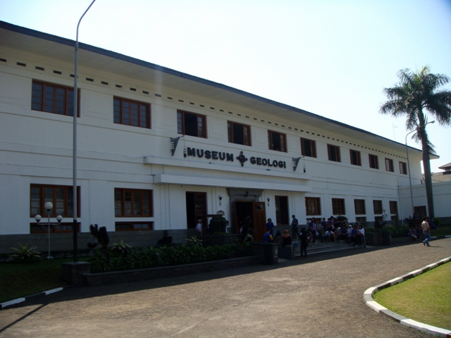 Geological Museum of Bandung, which houses many of the most precious artifacts and collections of the city and the nation's natural history.